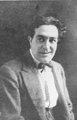 Pedro Gialdroni-actor argentino